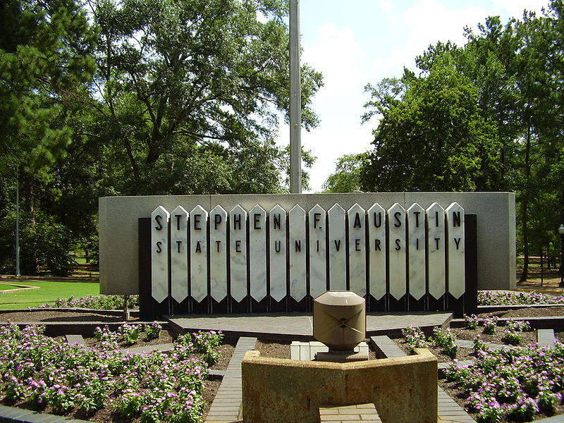 Stephen F. Austin State University Entrance, Texas